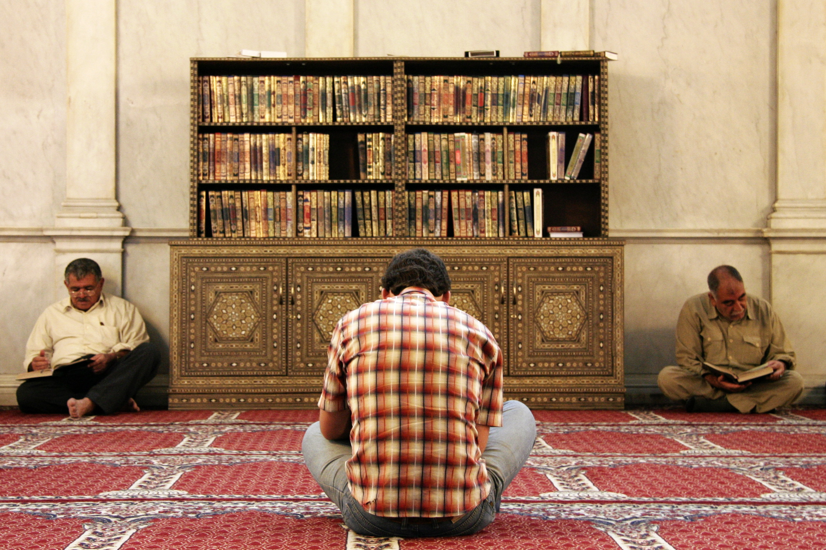 Men reading the Koran in between two prayer times in Umayyad Mosque, Damascus, Syria